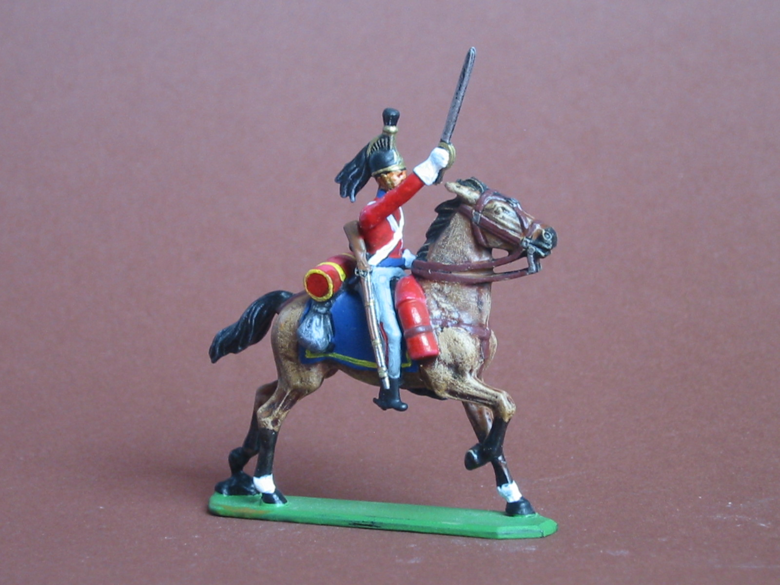 British dragoon of napoleonic wars. I casted this 40mm toy soldier in a rubber mold made by german company Schilkröt.I assembled and painted it.